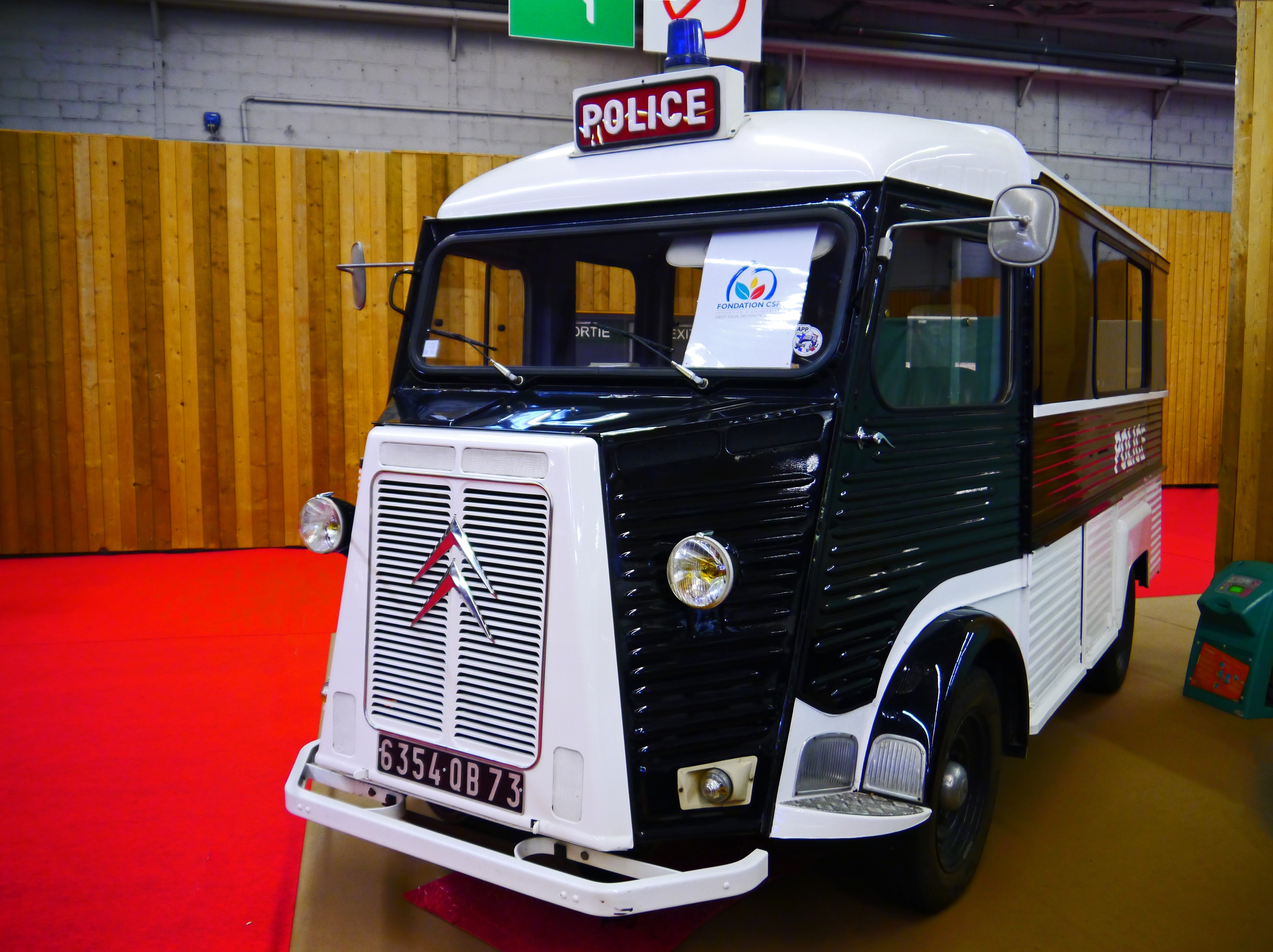 Police Nationale Citroën HY Van. These vans were used by the parisian police force from 1960 and were retired from service in 1983.